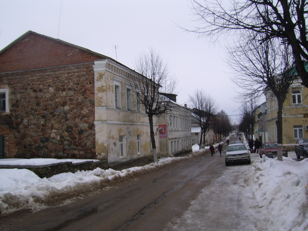 Velizh